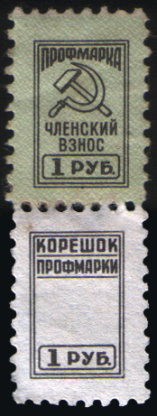 Trade-union stamp of the USSR, 1 rub. 1961